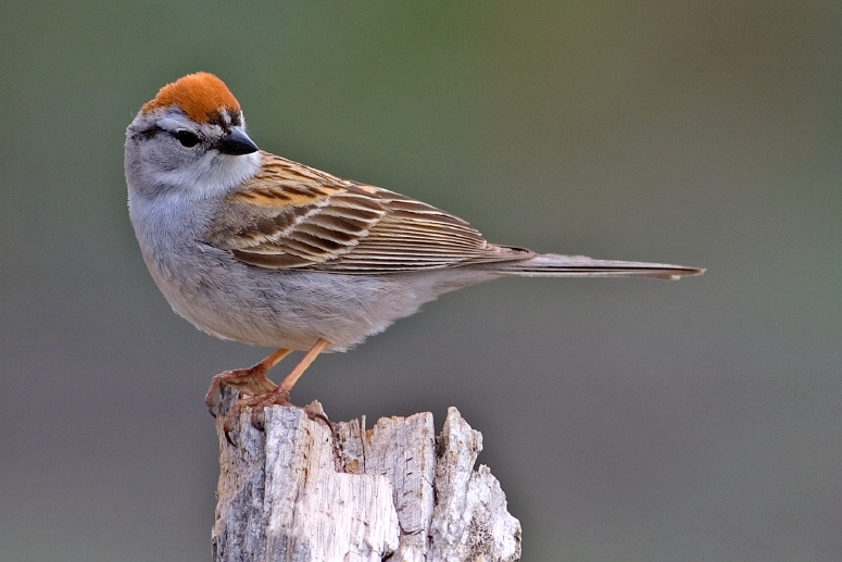 Chipping Sparrow (Spizella passerina), Cabin Lake Viewing Blinds, Deschutes National Forest, Near Fort Rock, Oregon